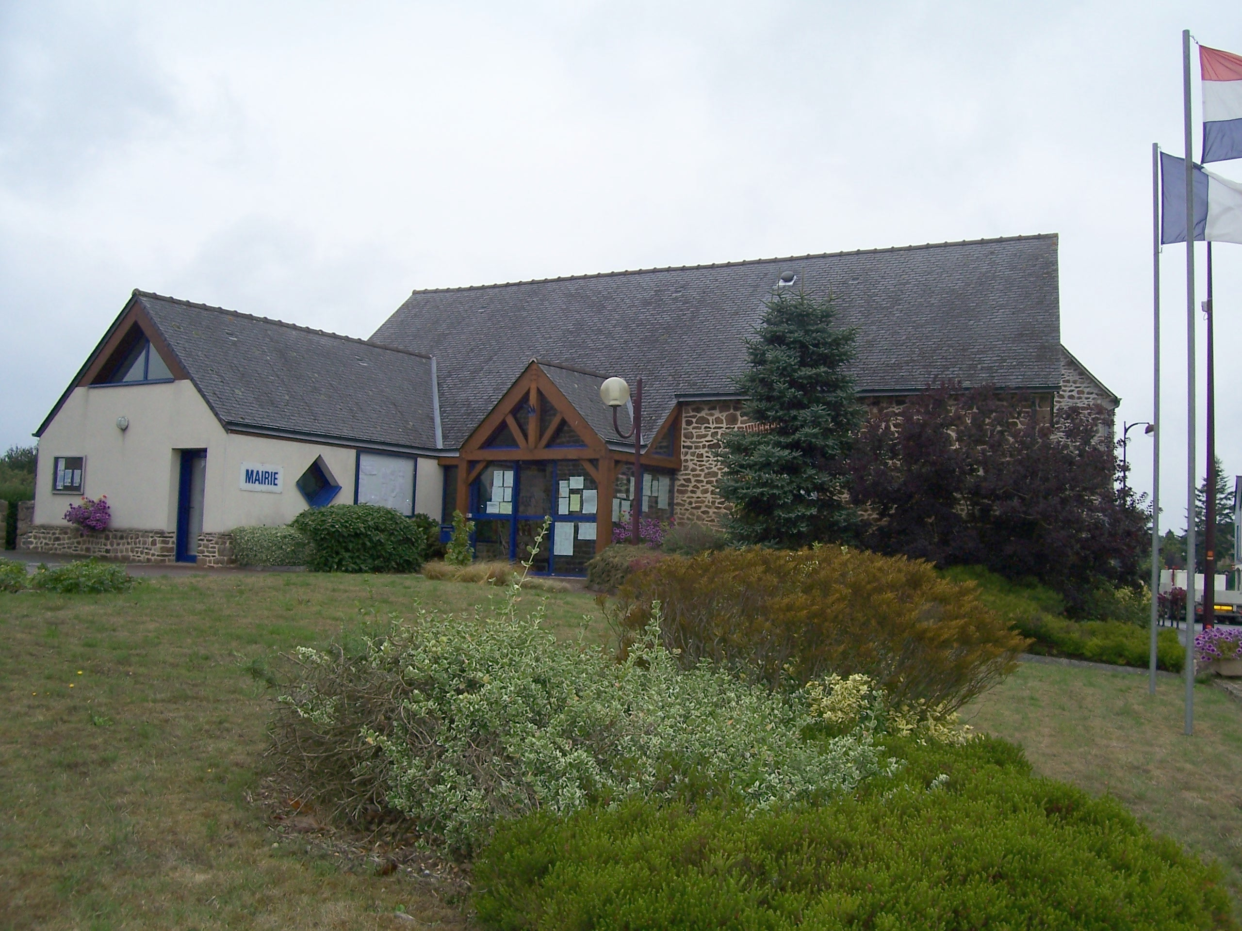 Town hall of Laignelet.